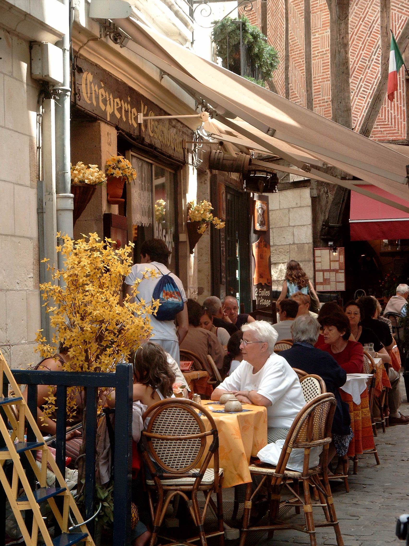 Restaurant in Tours, France (my own work)